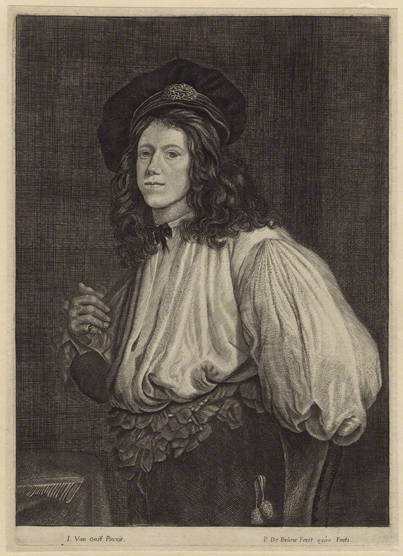 Portrait of Jacob Hall, English acrobat of the later 17th century.